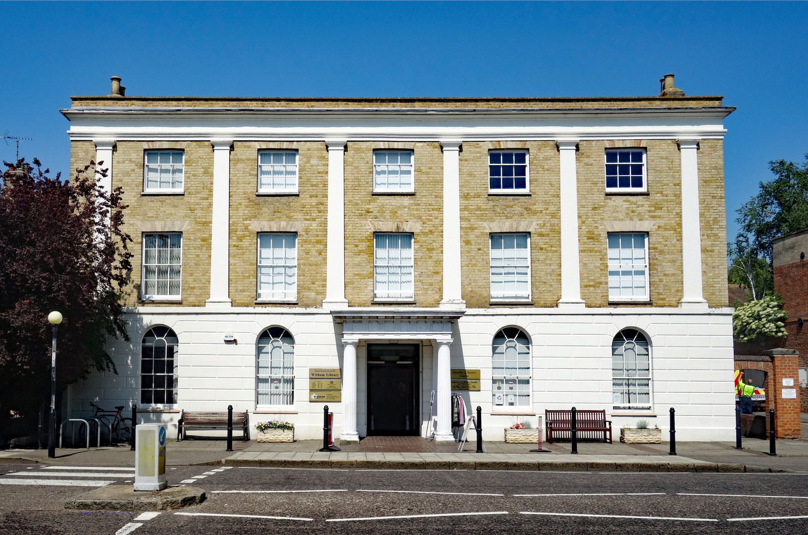 Witham Public Library. Formerly a cinema and originally a country house